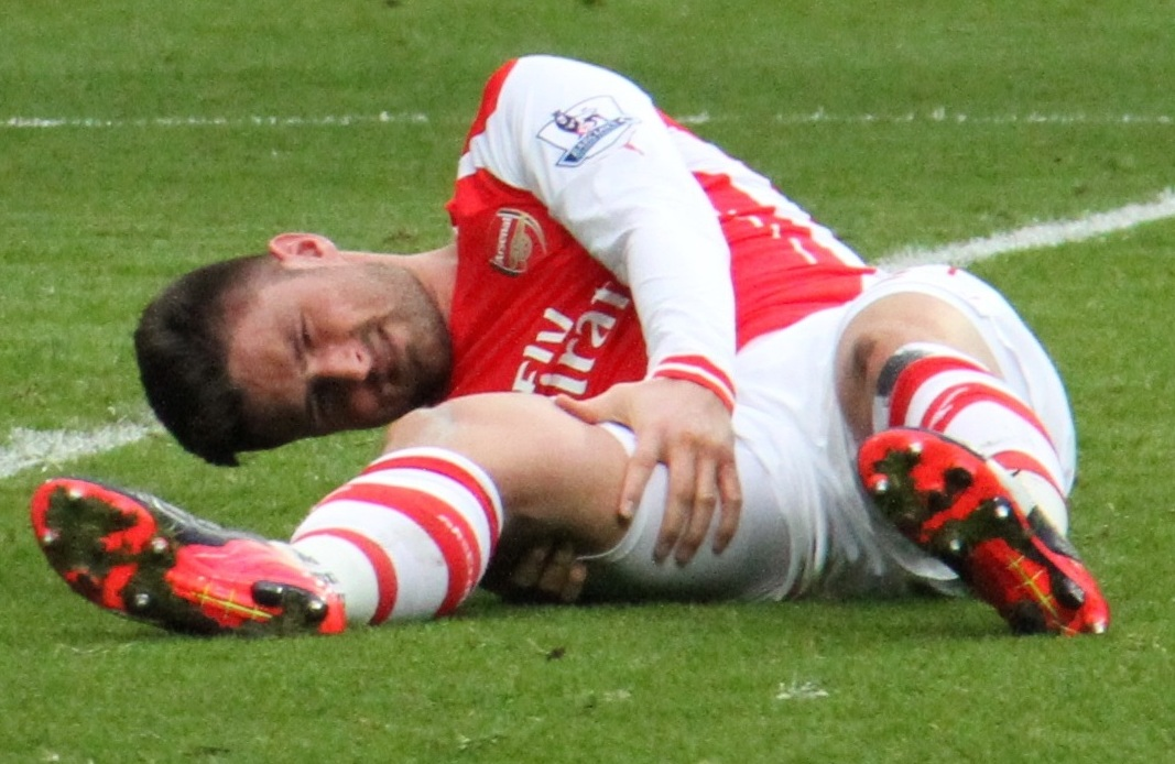 Giroud on the deck